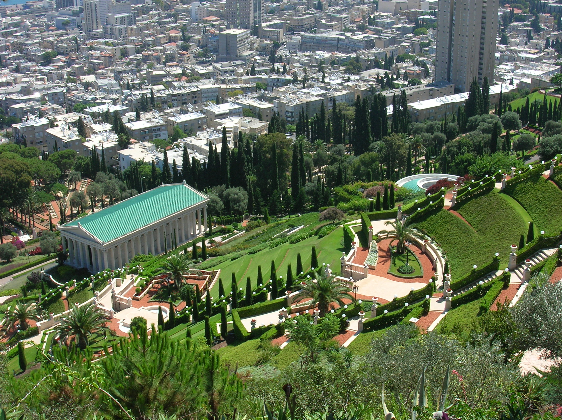 Piture taken by User:EdoM during august 2005 by a Nikon Camedia 4600